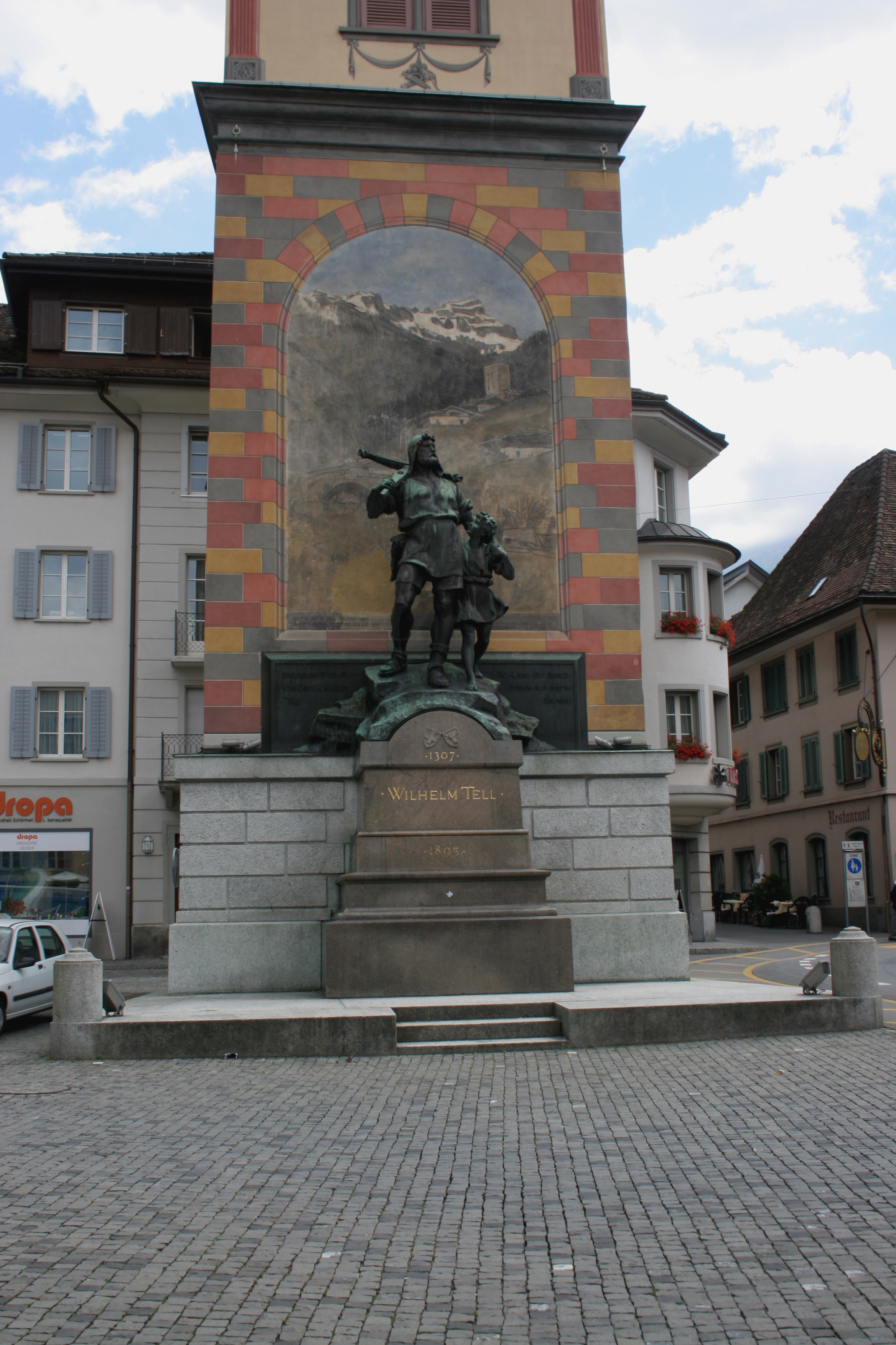 Statue of Wilhelm Tell in Altdorf, UR, Switzerland, sculpted by Richard Kissling 1895